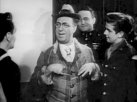 Cropped screenshot of Ed Wynn from the film Stage Door Canteen.